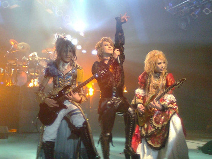 Teru, Kamijo and Hizaki, Versailles ~Philharmonic Quintet~ in Santiago, Chile, Teatro Teletón. METHOD OF INHERITANCE TOUR (June 6, 2010).